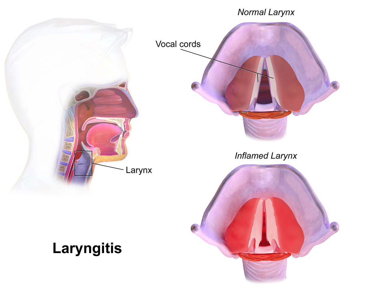 Laryngitis. See a full animation of this medical topic.